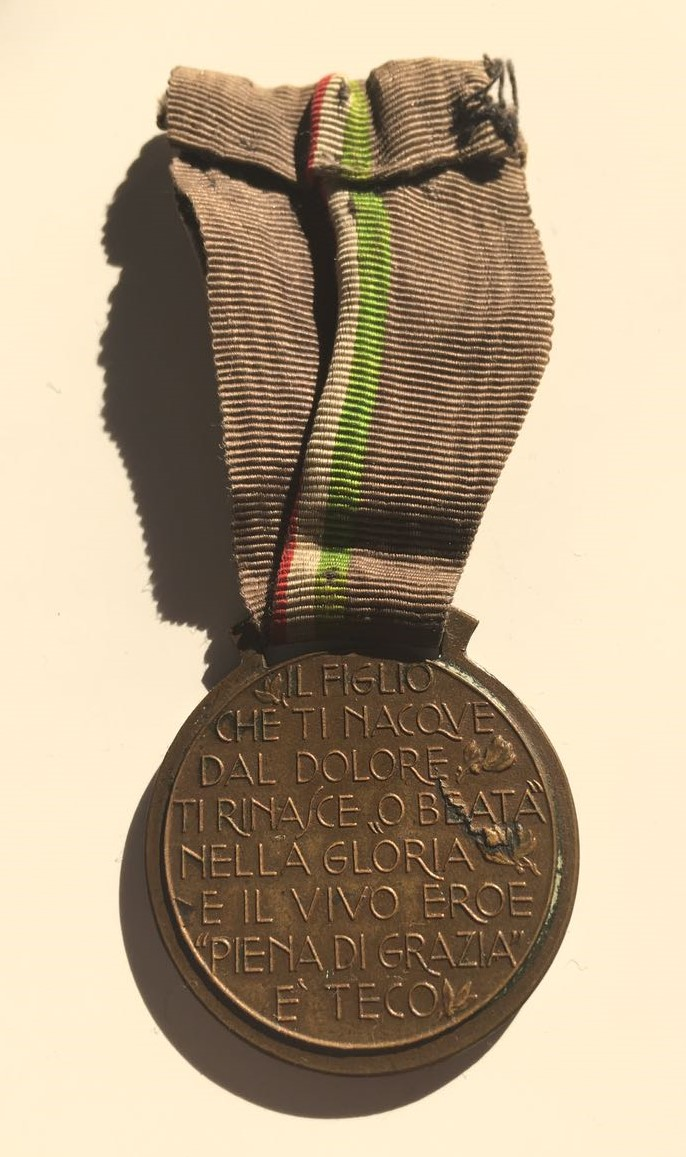 Medal for mothers of fallen soldiers